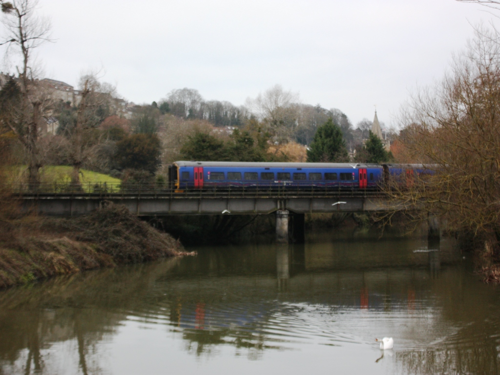 A First Great Western class 158 passes over the River Avon as it pulls away from Bradford-on-Avon station in Wiltshire, England, with a train from Portsmouth to Cardiff.